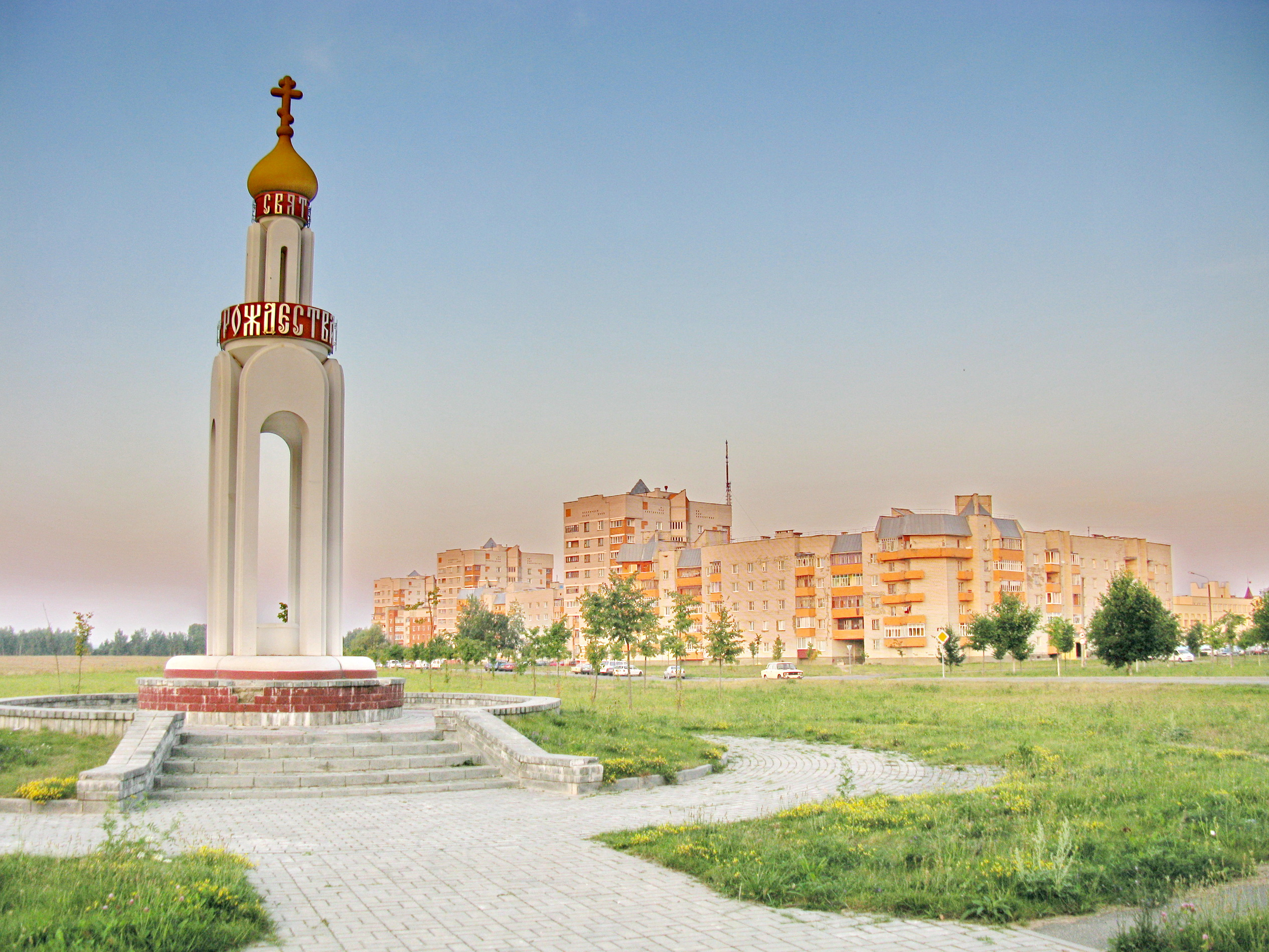 Smarhon', Belarus. Microdistrict Ushodni. 2009